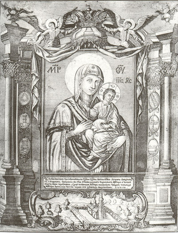 Theotokos of Bodjani (a monastery in Vojvodina, Serbia), copperplate by Orfelin.